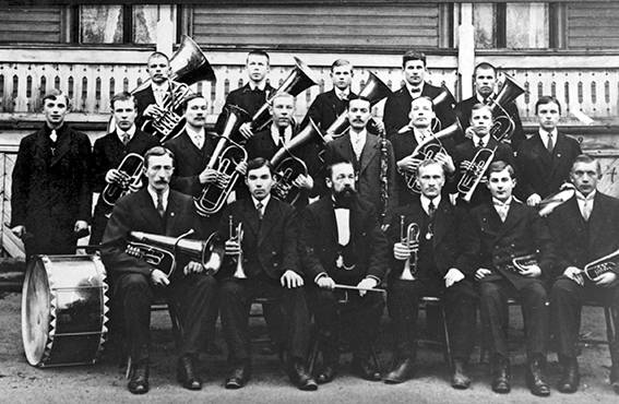 Pori Worker's Society Brass Band (Porin Työväenyhdistyksen soittokunta) in the 1920s. Pori, Finland.